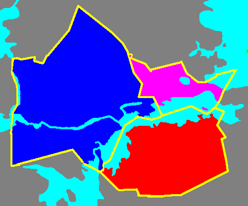 Pirkkala/Pohjois-Pirkkala/Nokia borders 1921–1938. (Source: Iltanen, Jussi, 2004, Urbes Finlandiae, Suomen kaupunkien historiallinen kartasto, Genimap Oy, ISBN 951-593-915-1)